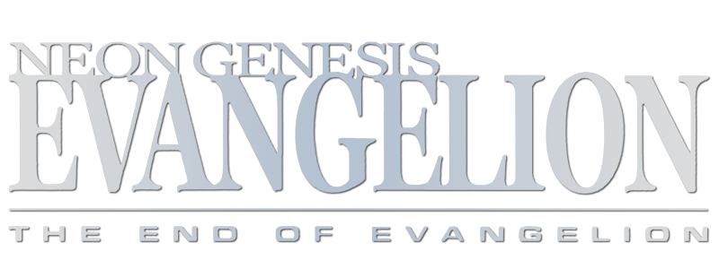 "Neon Genesis Evangelion: The End of Evangelion" (1997, Hideaki Anno) logo in Latin alphabeth.